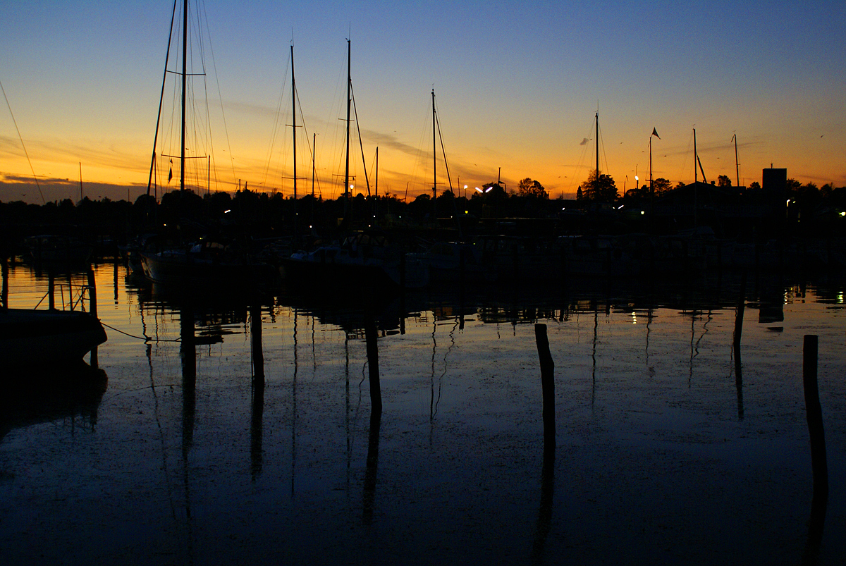 Evening at Roedvig Harbour, Stevns Kommune, Denmark